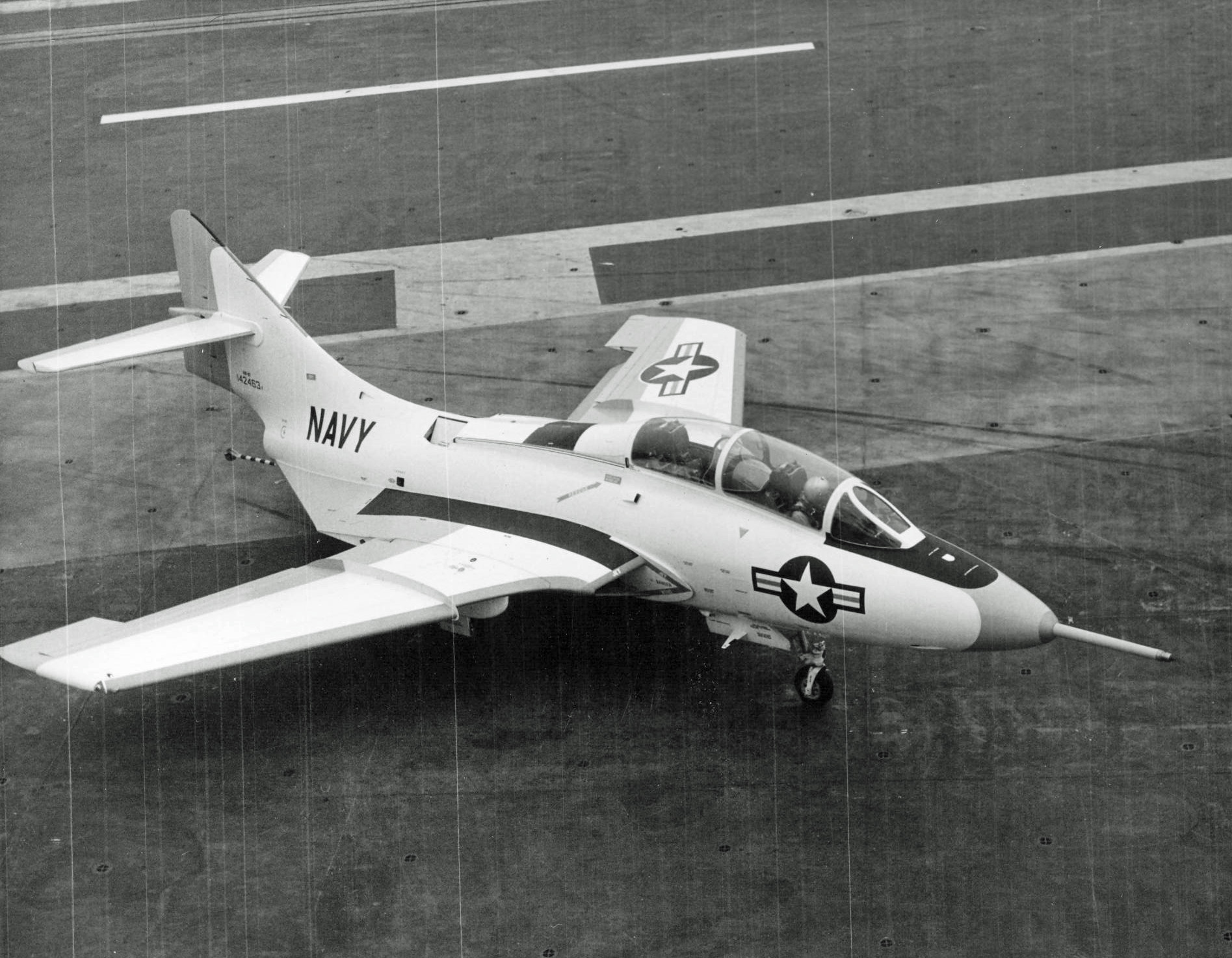 A U.S. Navy Grumman F9F-8T Cougar (BuNo 142463) taxis on the flight deck of the aircraft carrier USS Saratoga (CVA-60), 1957-1959.